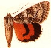 PLATE CXCVII.